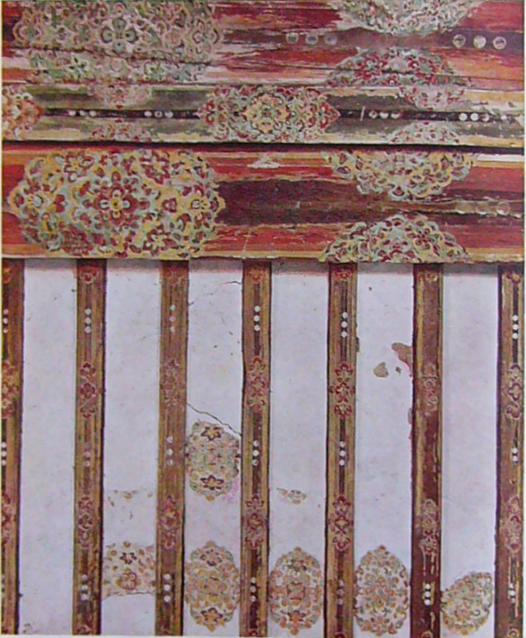 Inner Wall of Phoenix Hall ACE 1053, middle Heian period, Kyoto Uji, Japan